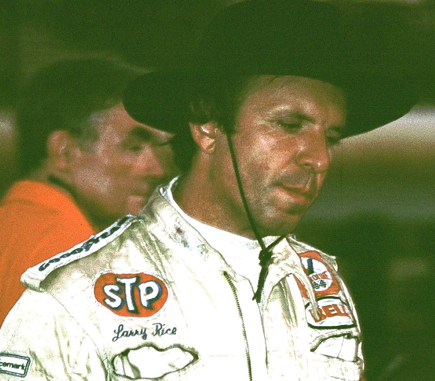 USAC and CART champ car racer Larry Rice. Photo By Ted Van Pelt